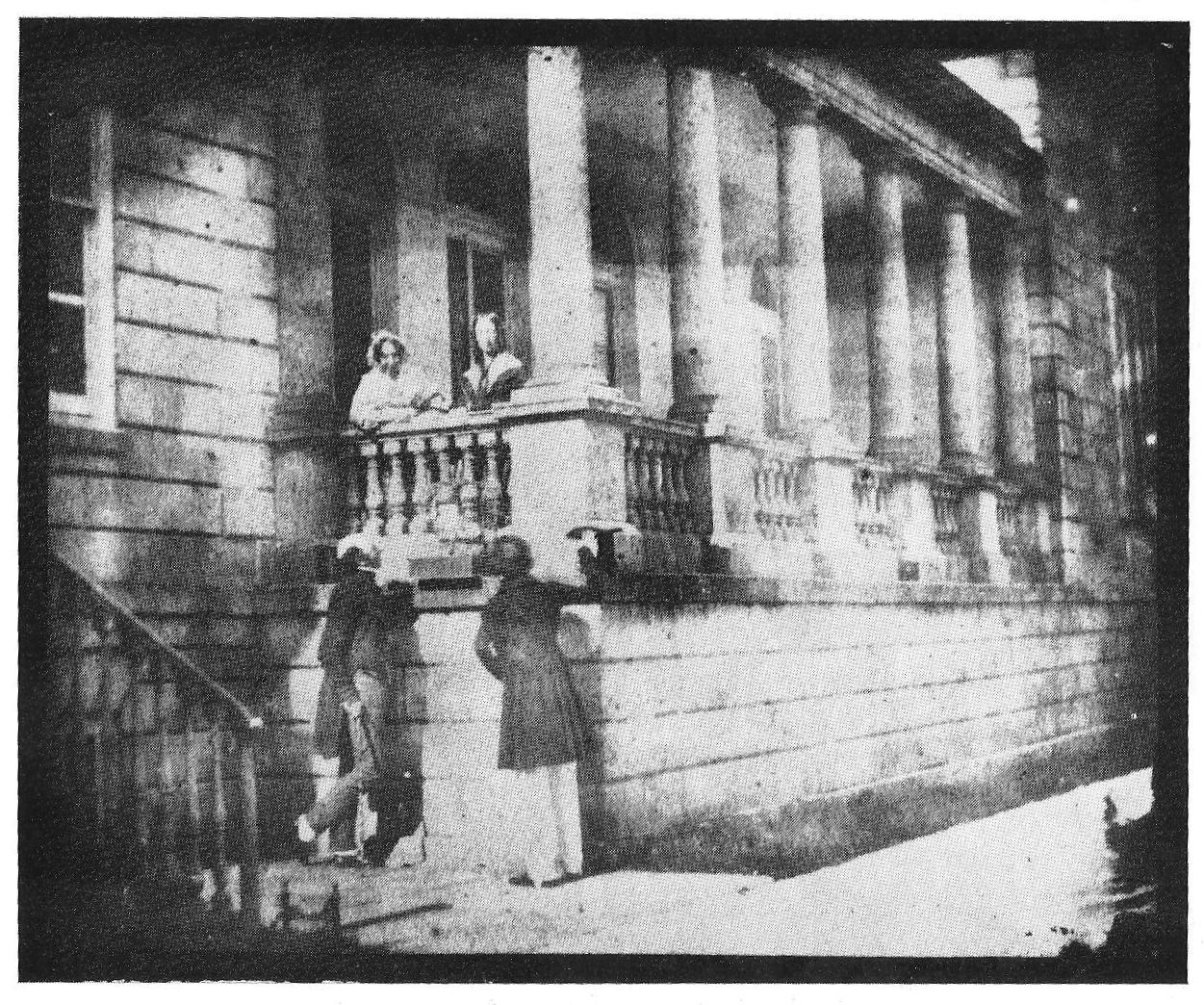 Sir Charles Lemon, the photographer's uncle, left, with others at Carclew House, Cornwall: photograph by W. H. Fox Talbot. The original is in the Science Museum.